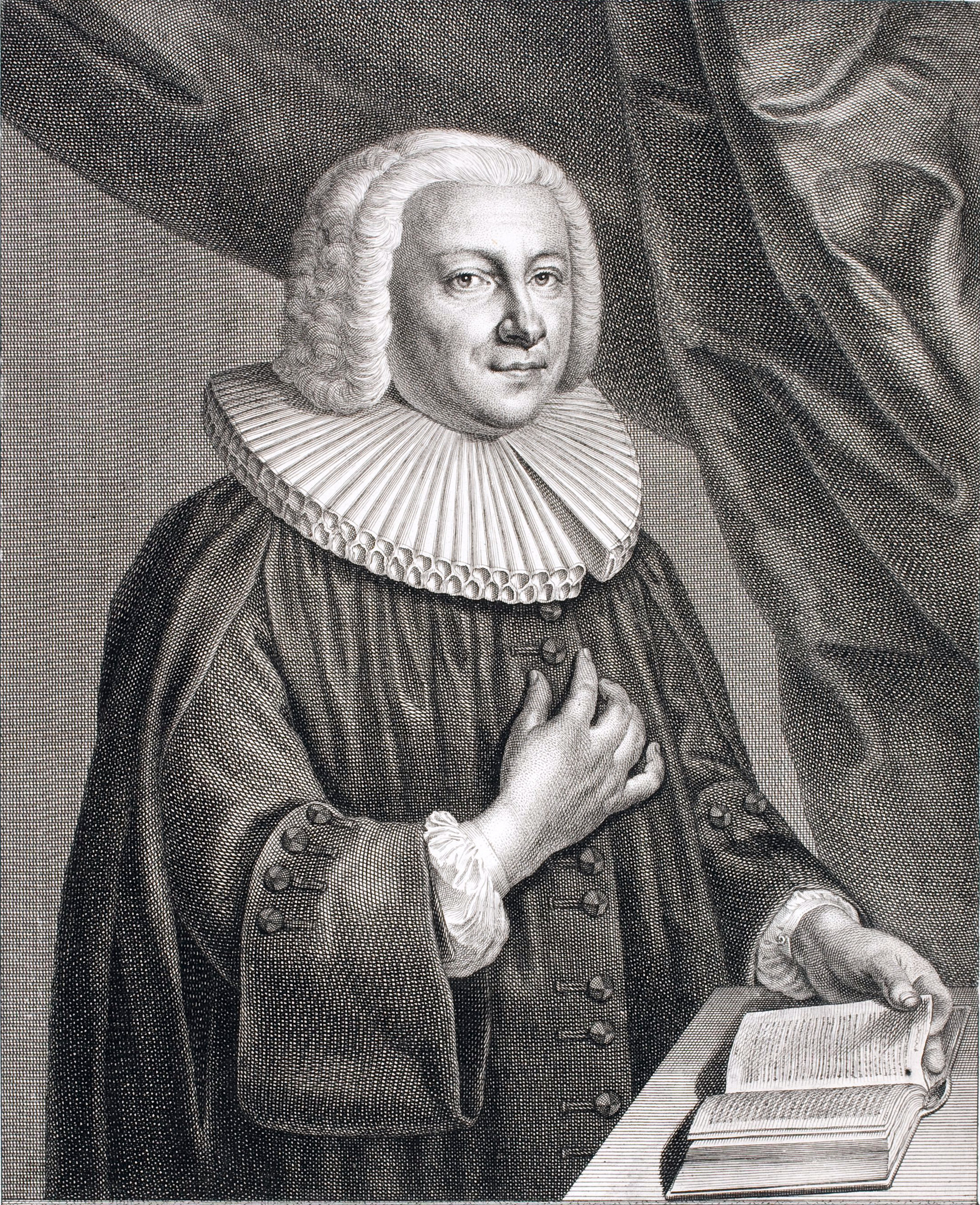 Depicted person: Christoph Birkmann